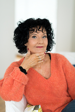 Unni Lindell